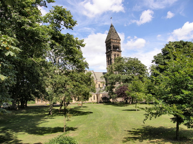 St George's parish church, Osborne Road, Jesmond, Newcastle upon Tyne, England